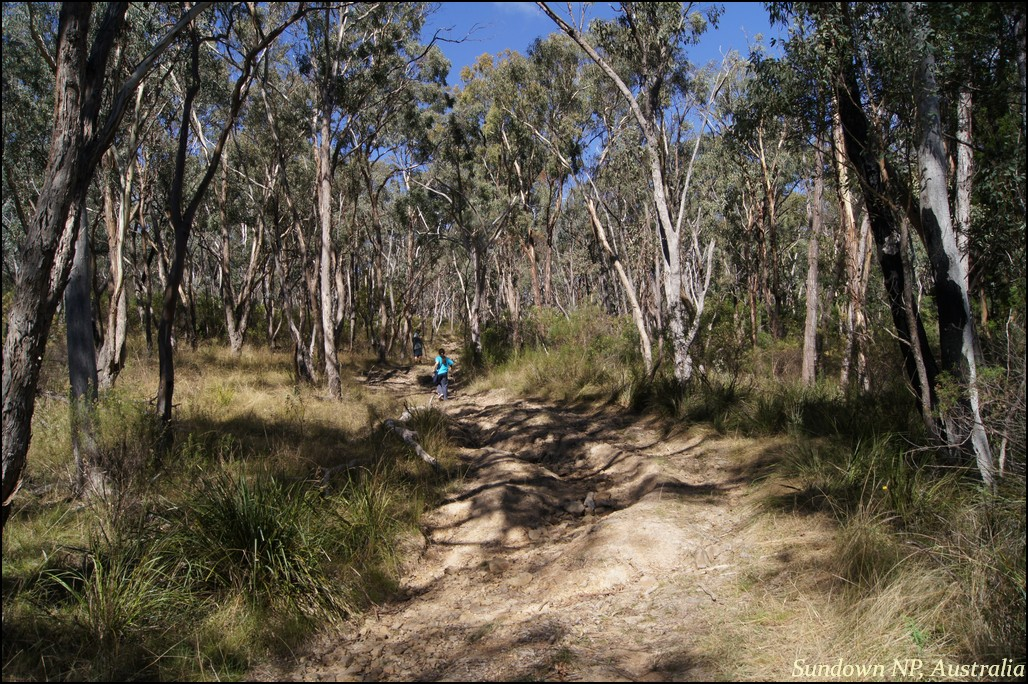 Camping and hiking in Sundown National Park, Australia